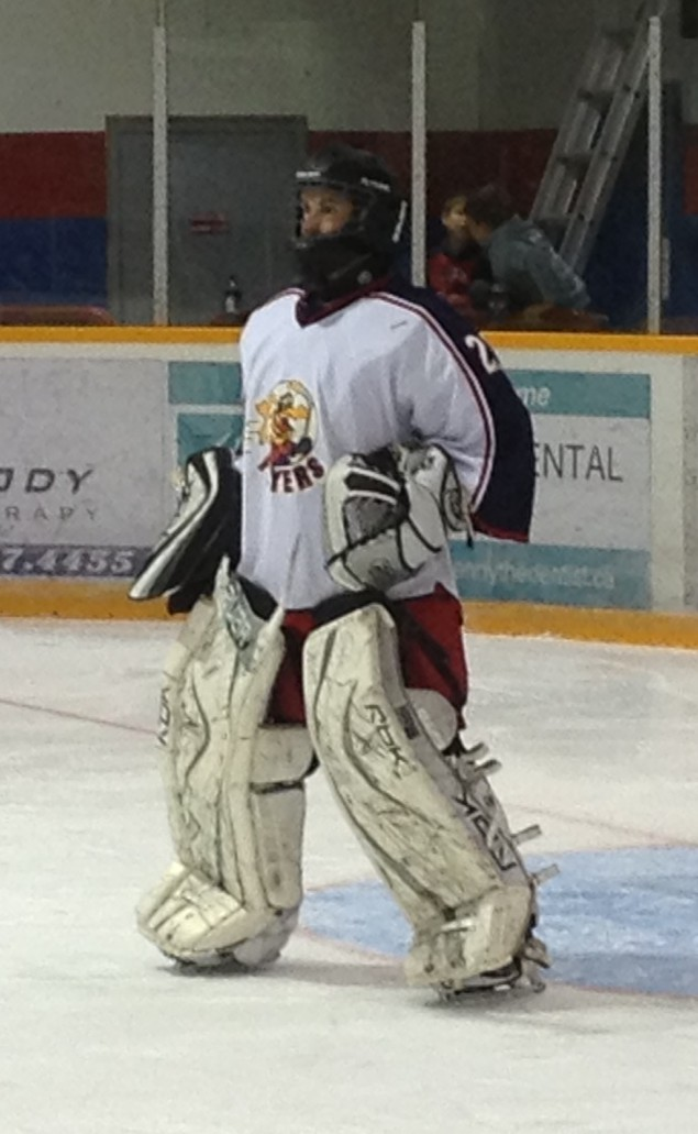 These images of GLJHL action are taken by Devan Mighton.